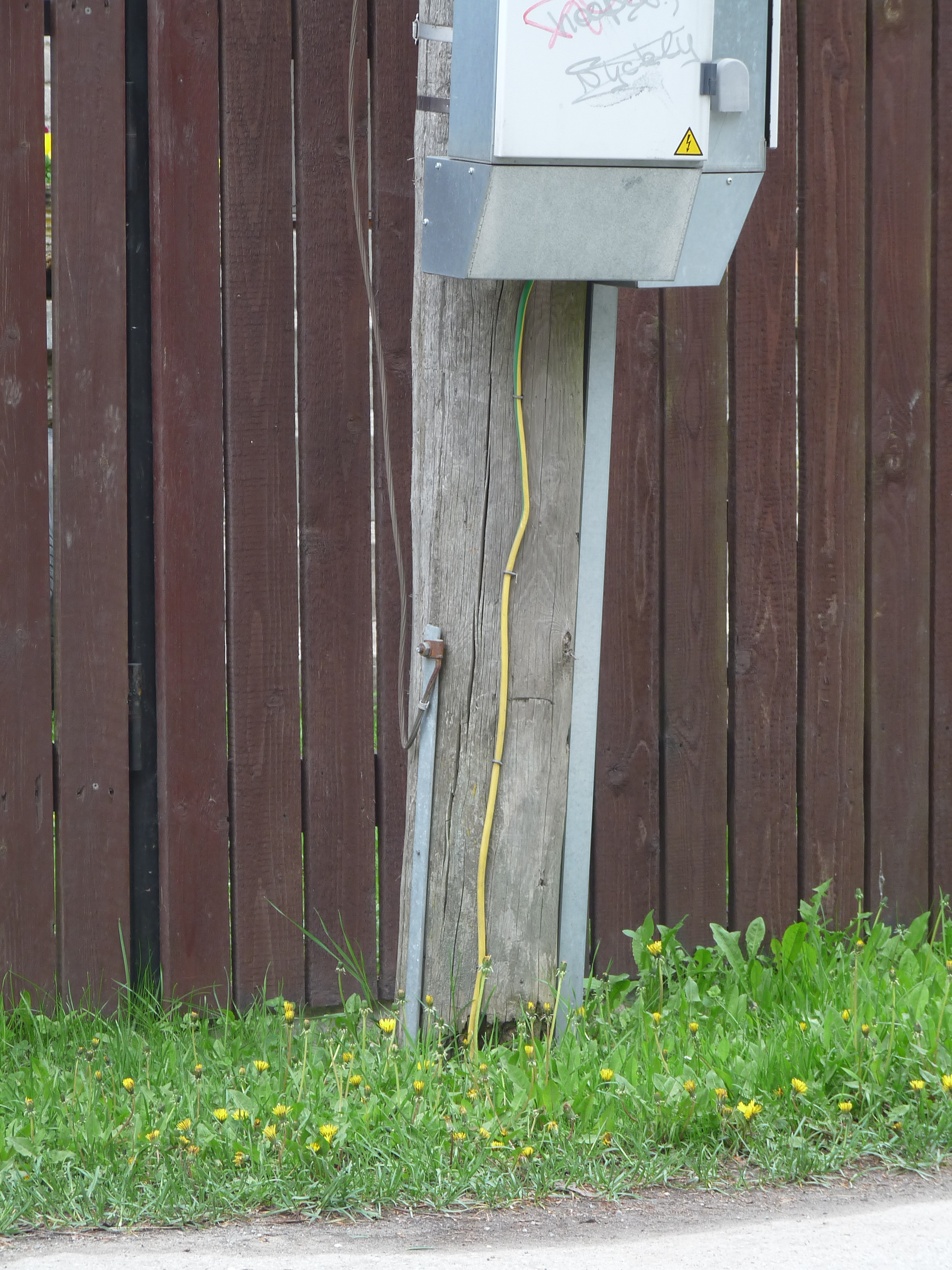 Using overhead powerline, neutral wire should be earthed every 40-100 meters